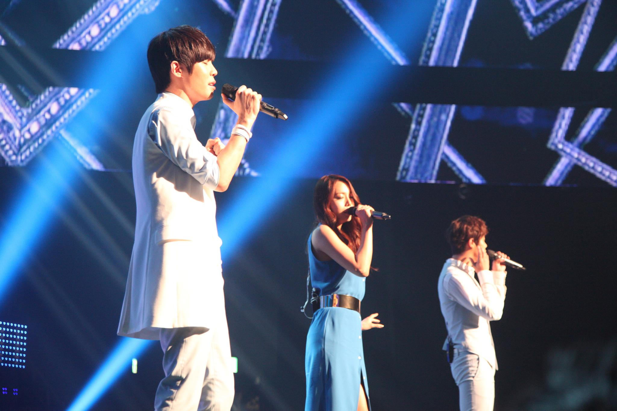 8Eight @ Cyworld Dream Music Festival 싸이월드 드림 뮤직 페스티벌_2